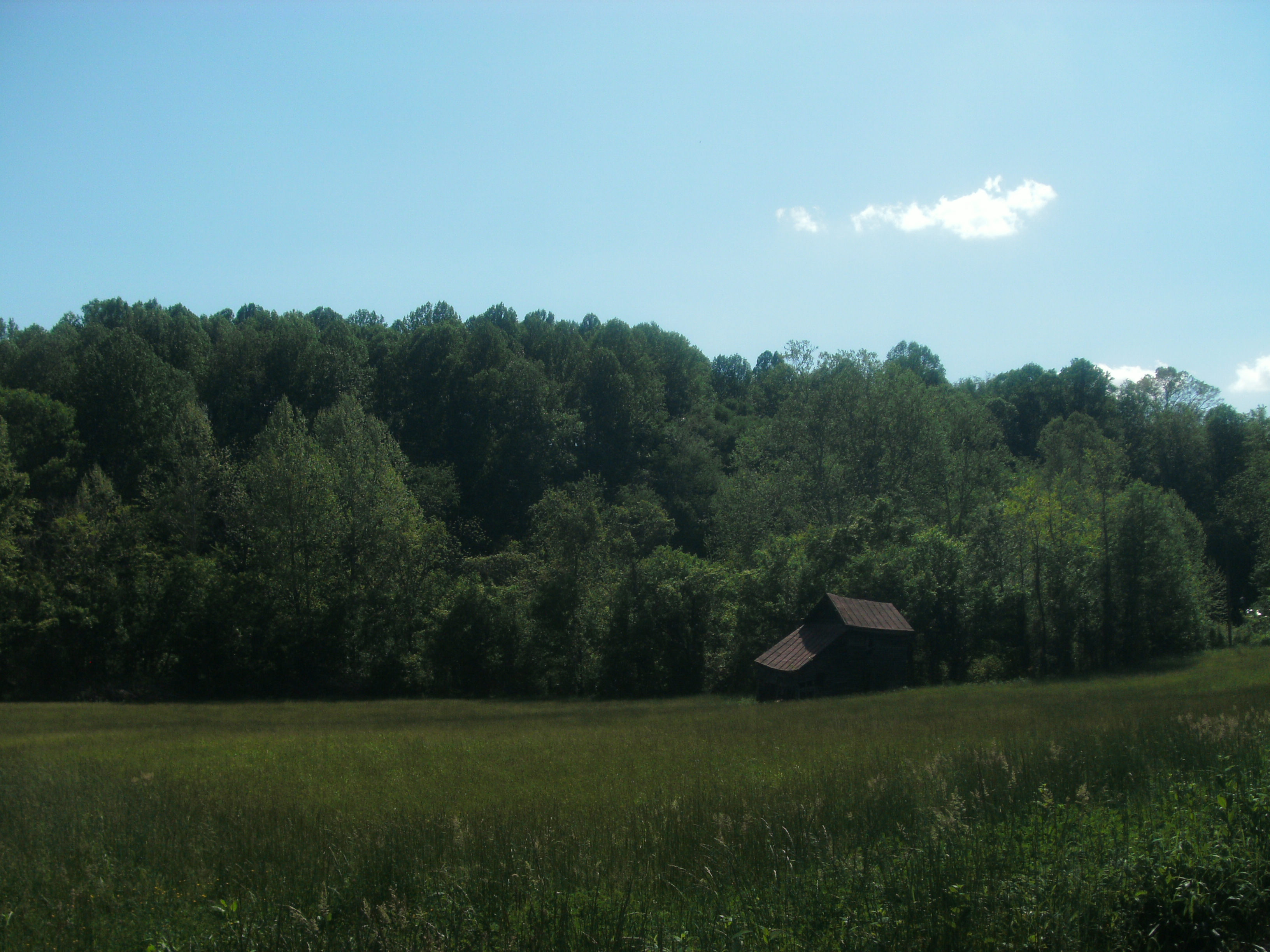 Taken by me in May, 2016 GEDSC DIGITAL CAMERA